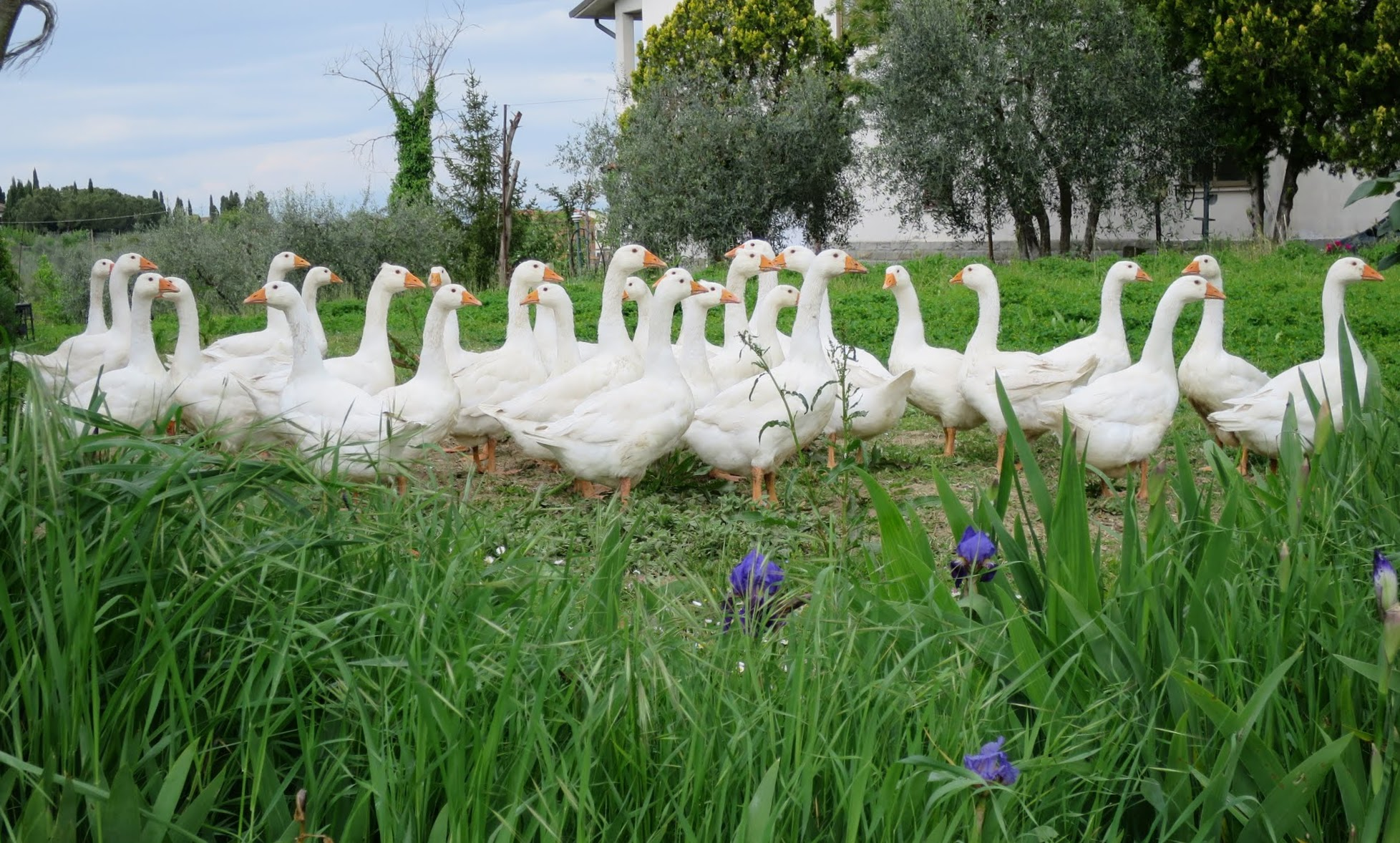 Gathering of Geese